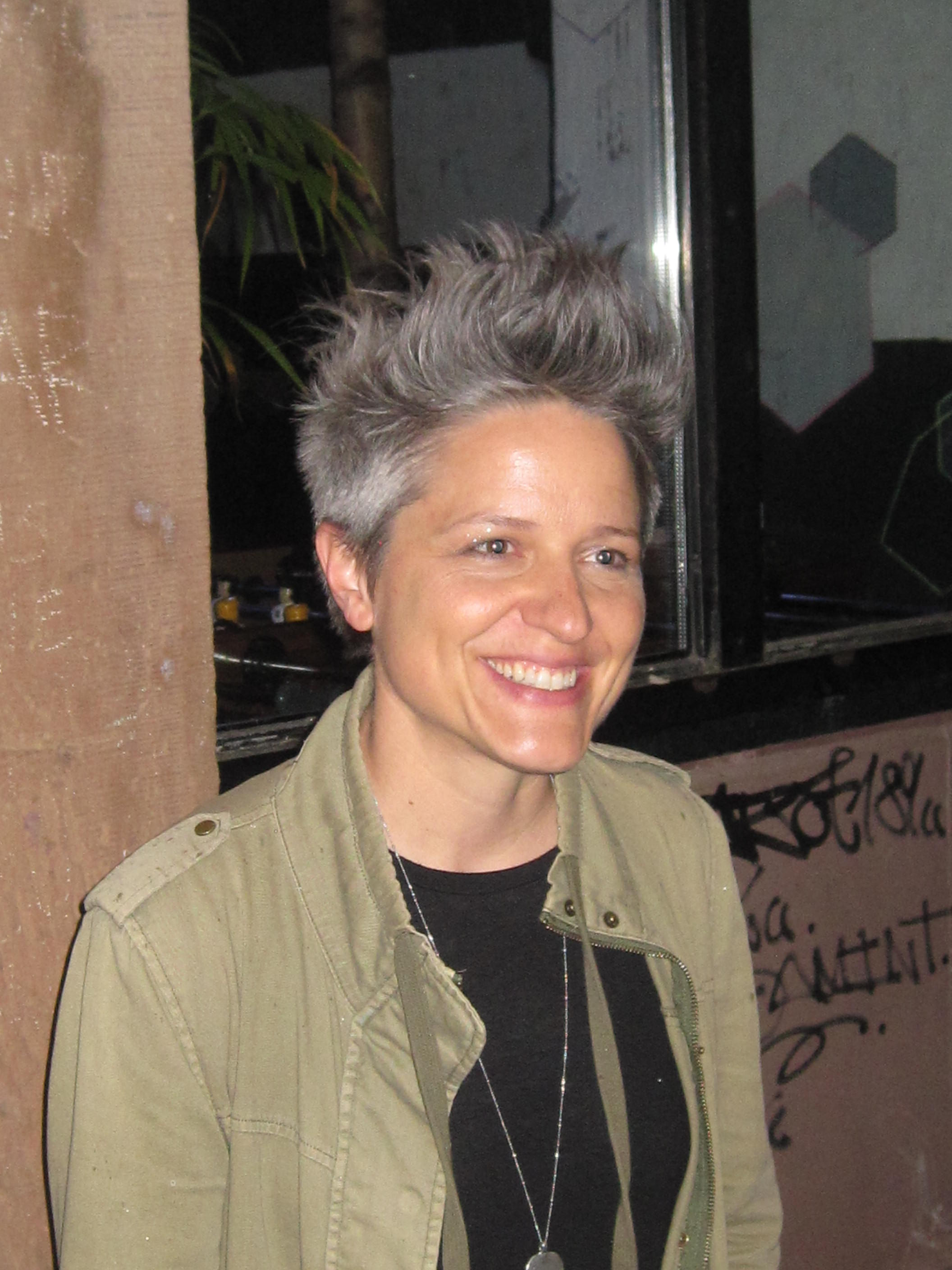 American jazz drummer Allison Miller after concert at jazz club Cavete, Marburg, Germany in may 2018.